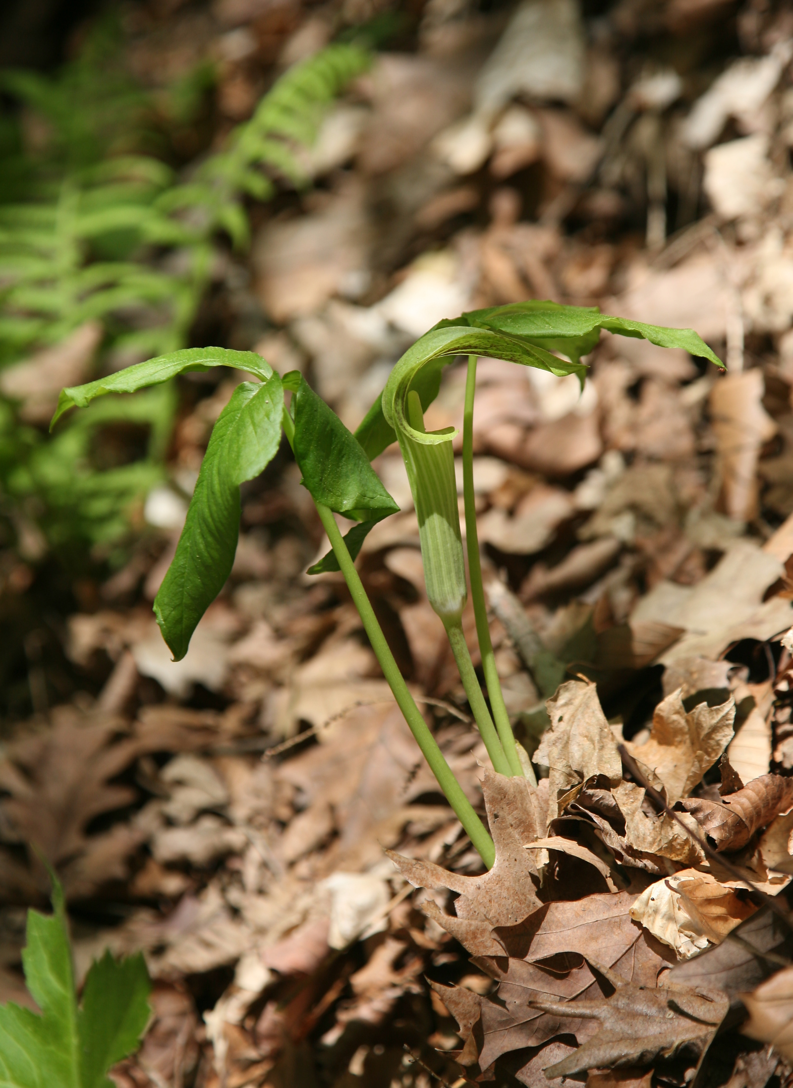 Jack-in-the-Pulpit (Arisaema triphyllum) in Turkey Run State Park, Indiana